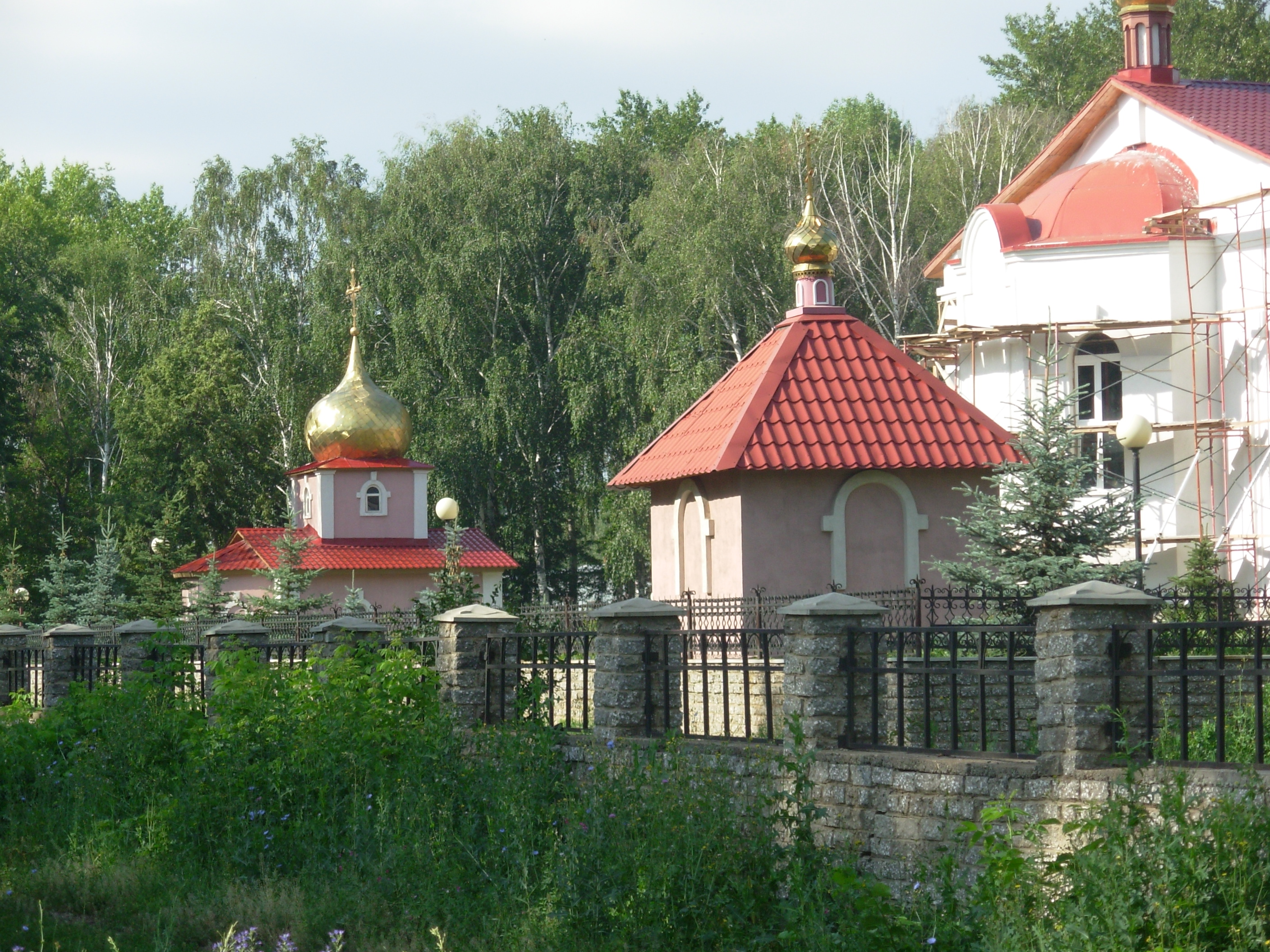 street